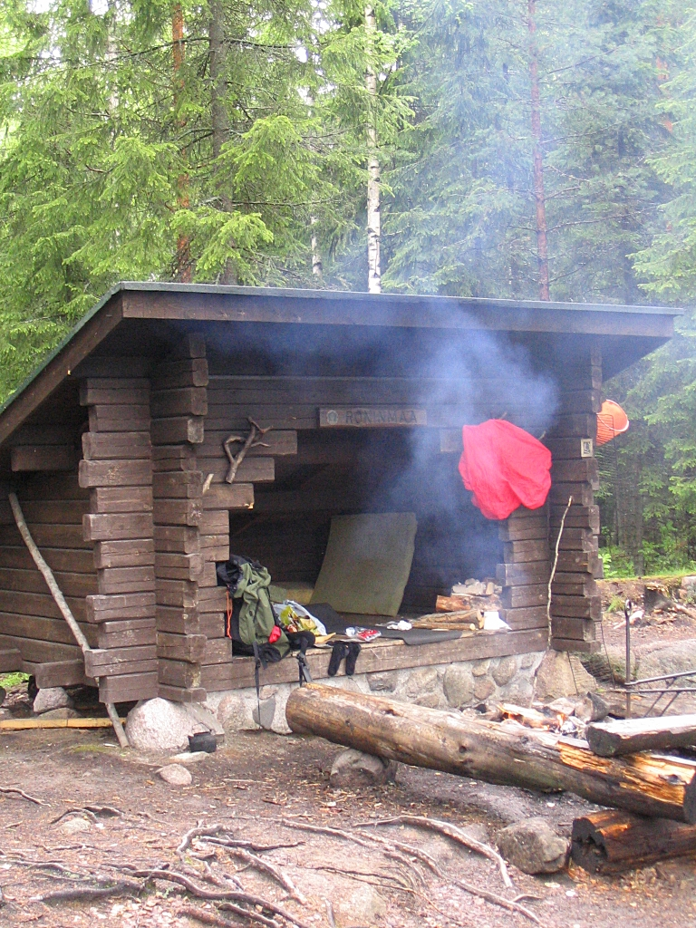 A lean-to shelter ('laavu') in the Pukala recreational forest, in Orivesi, Finland